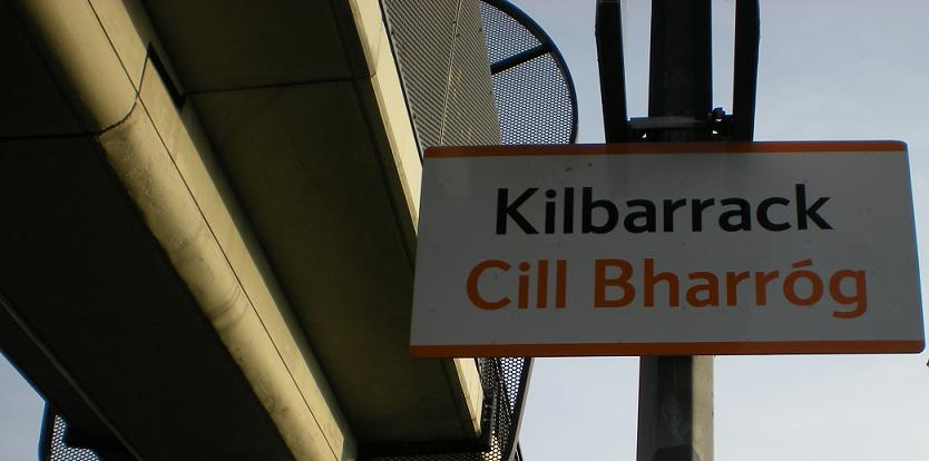 Kilbarrack train station.